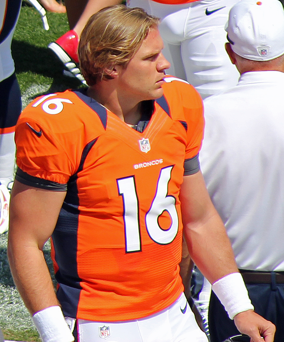 Caleb Hanie with the Broncos in 2012 preseason.